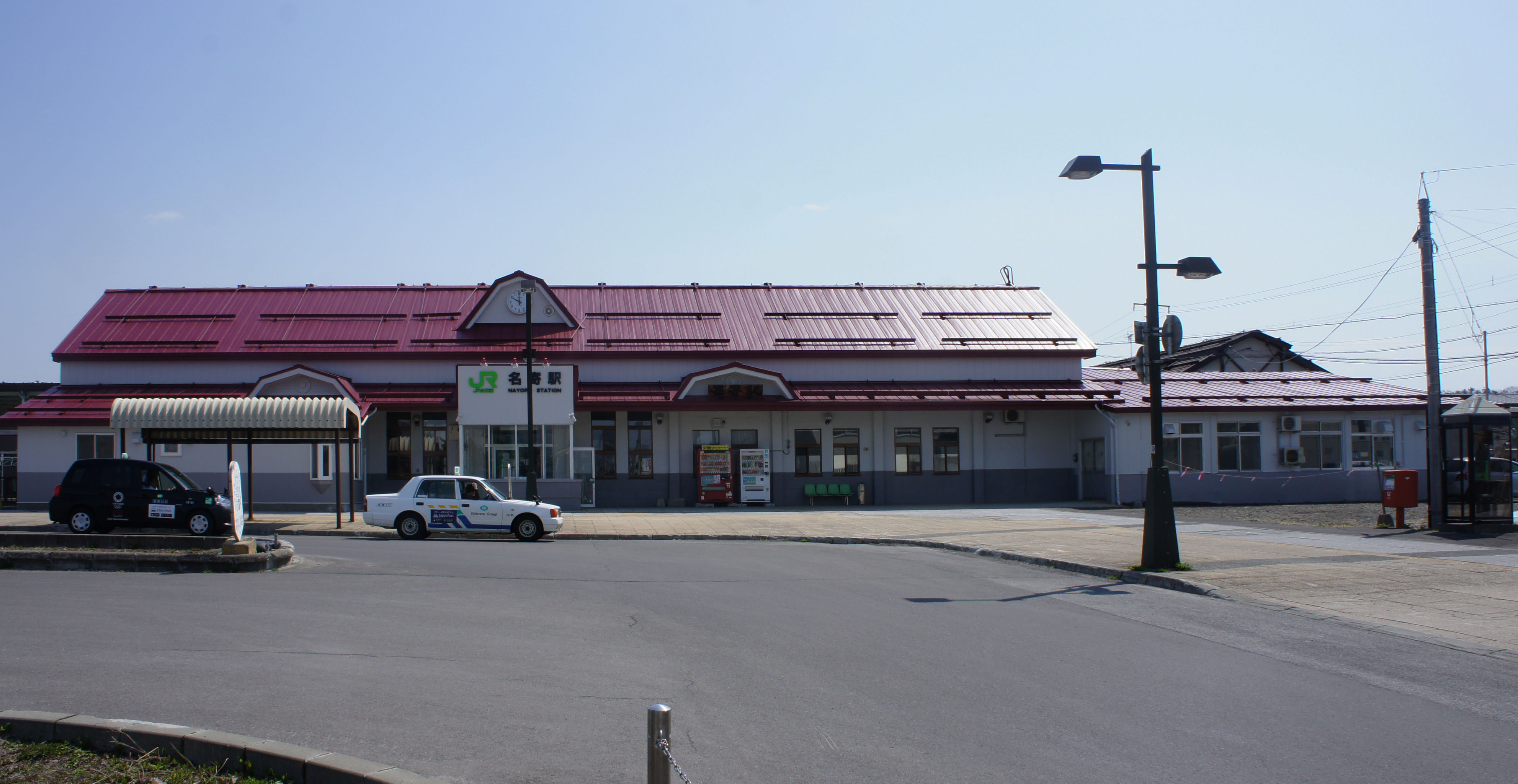 Station building of JR Soya-Main-Line Nayoro Station Sony NEX-3 + E 18-55mm F3.5-5.6 OSS